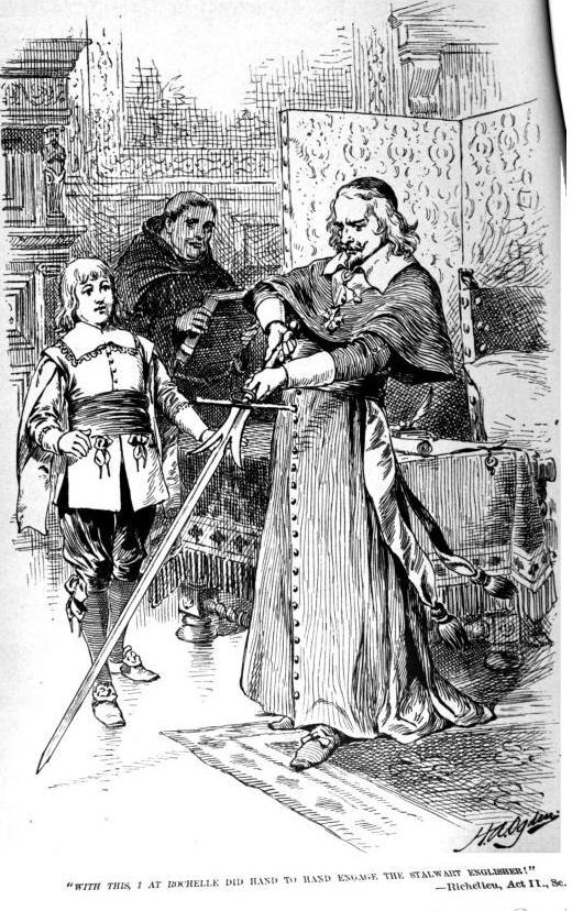 Cardinal Richelieu by H. A. Ogden, illustrating the play Richelieu; or the Conspiracy.